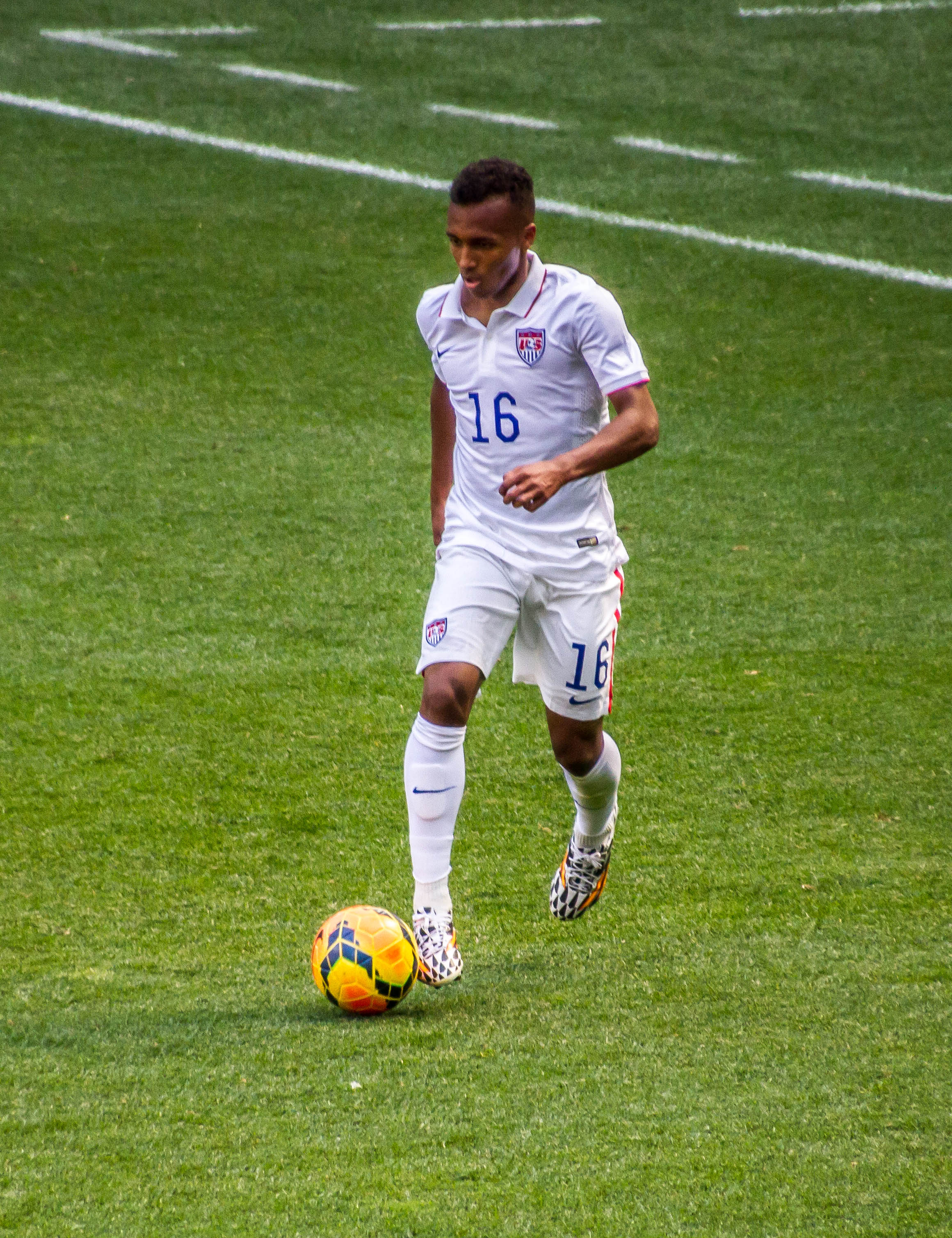 Julian Wesley Green playing for the United States in a friendly match against Turkey on 1 June 2014.